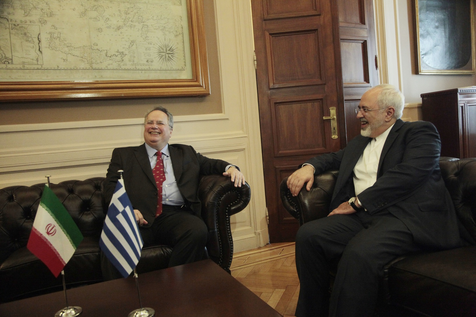 Mohammad Javad Zarif greeting Nikos Kotzias at Greek Ministry of Foreign Affairs in Athens.